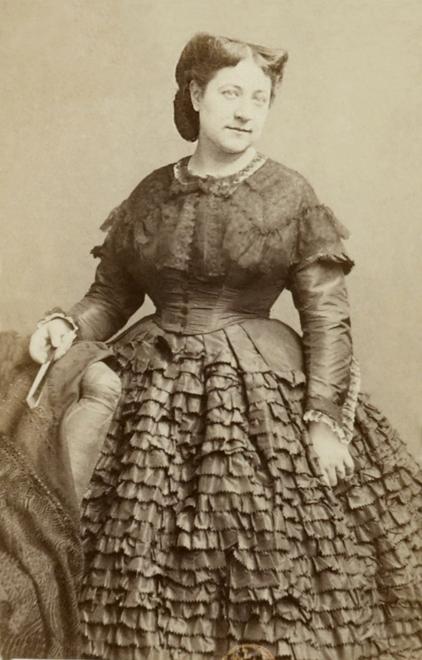 Madeleine Brohan (1833-1900), french actress, member of the "Comédie-Française".